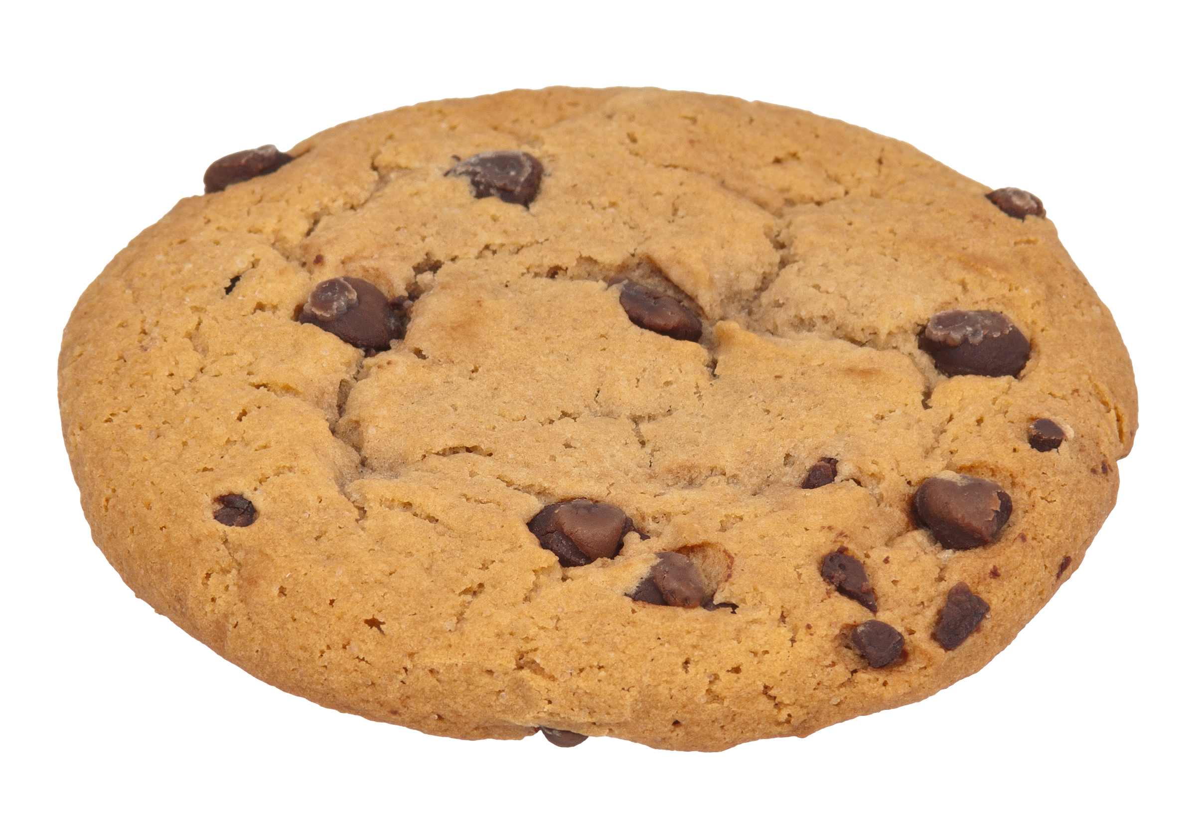 A chocolate chip cookie. This is from a Duane Reade brand of cookies.